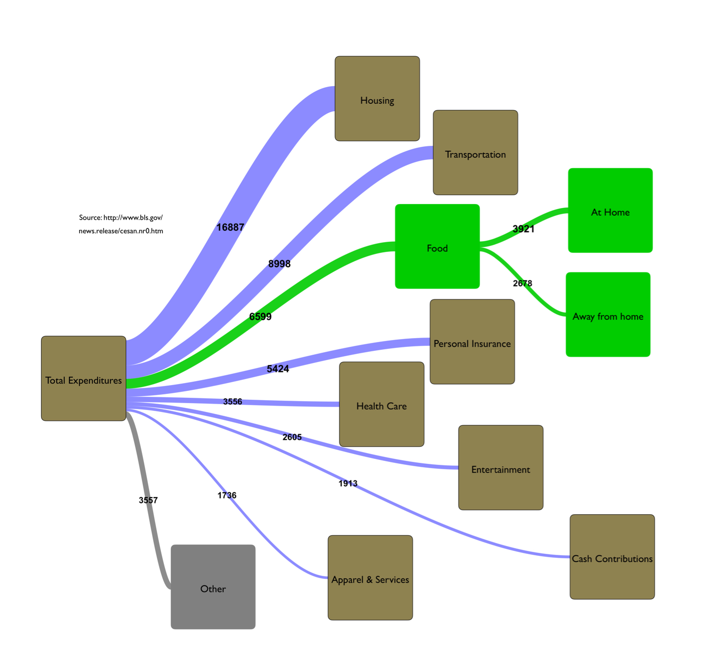 Sankey flow diagram representing US consumer expenditures in 2012, drawn with the Sankey Diagram tool on an iPad.